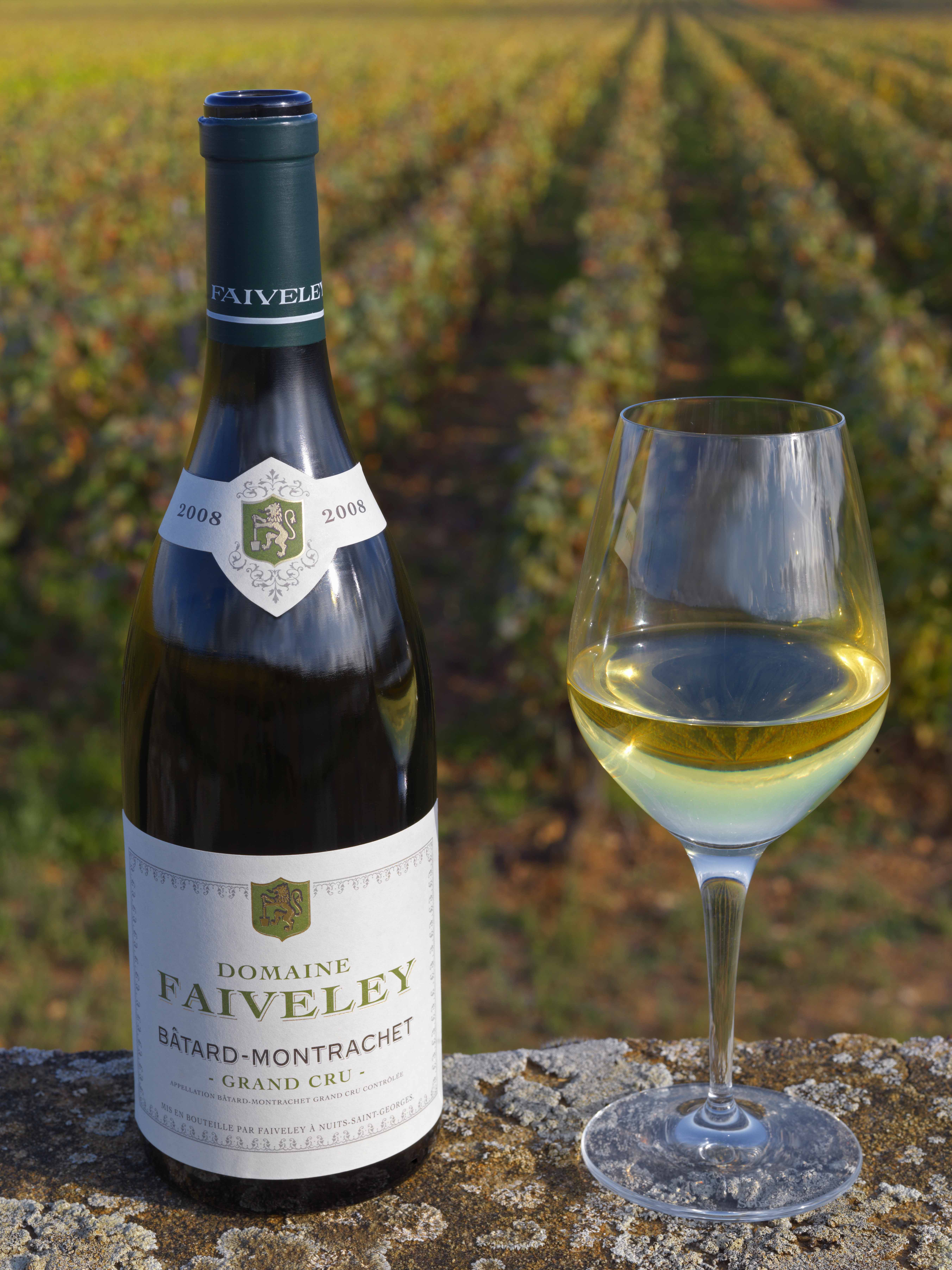 French Chardonnay wine from the Burgundy Grand cru vineyard of Batard Montrachet in the Cote de Beaune.